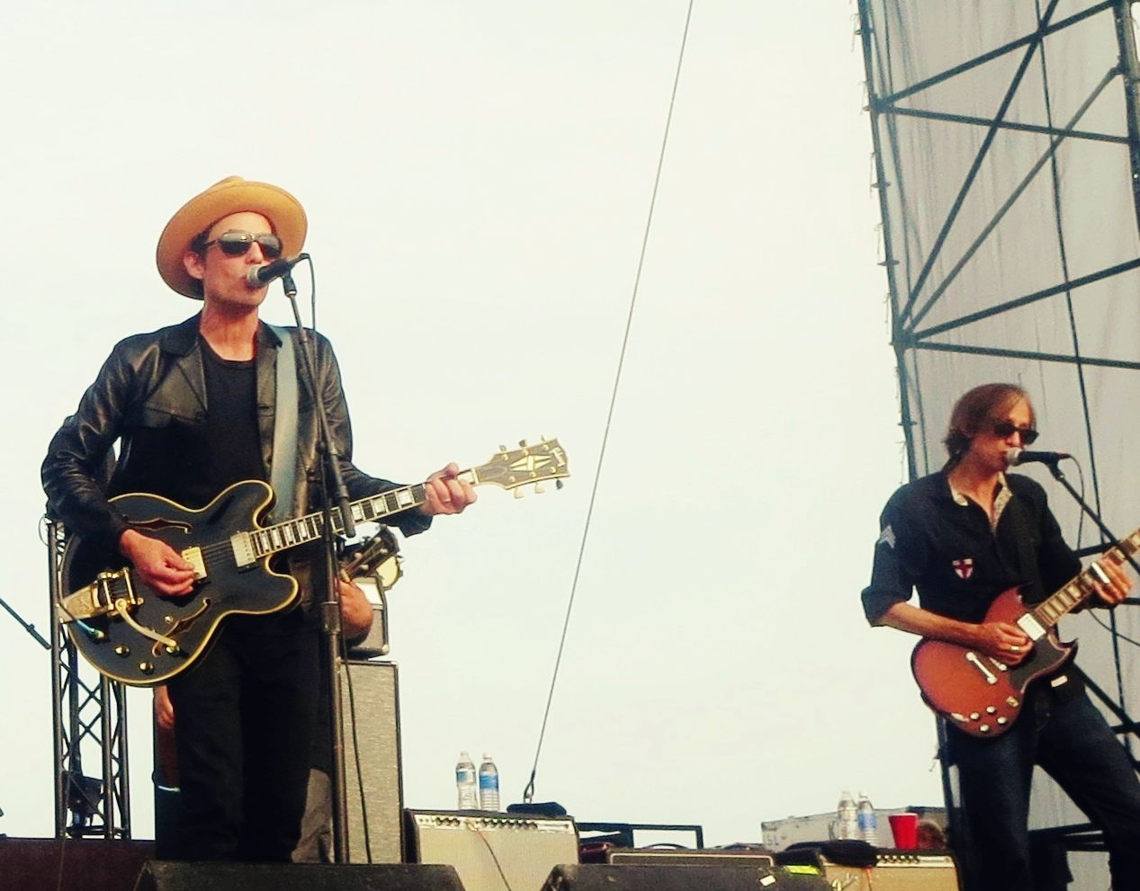 Jakob Dylan and Stuart Mathis of The Wallflowers perform in Walker, Minnesota in 2014